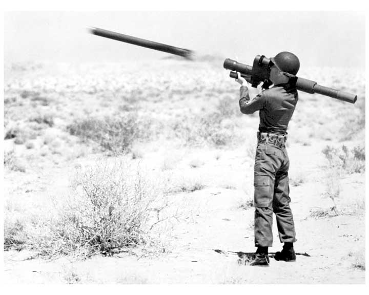 Staff Sergeant Rufus Parker, a paratrooper from Kosciusko, Miss., is shown launching the Redeye missile at an airborne target. Spring 1964, Ft. Bliss, TX.